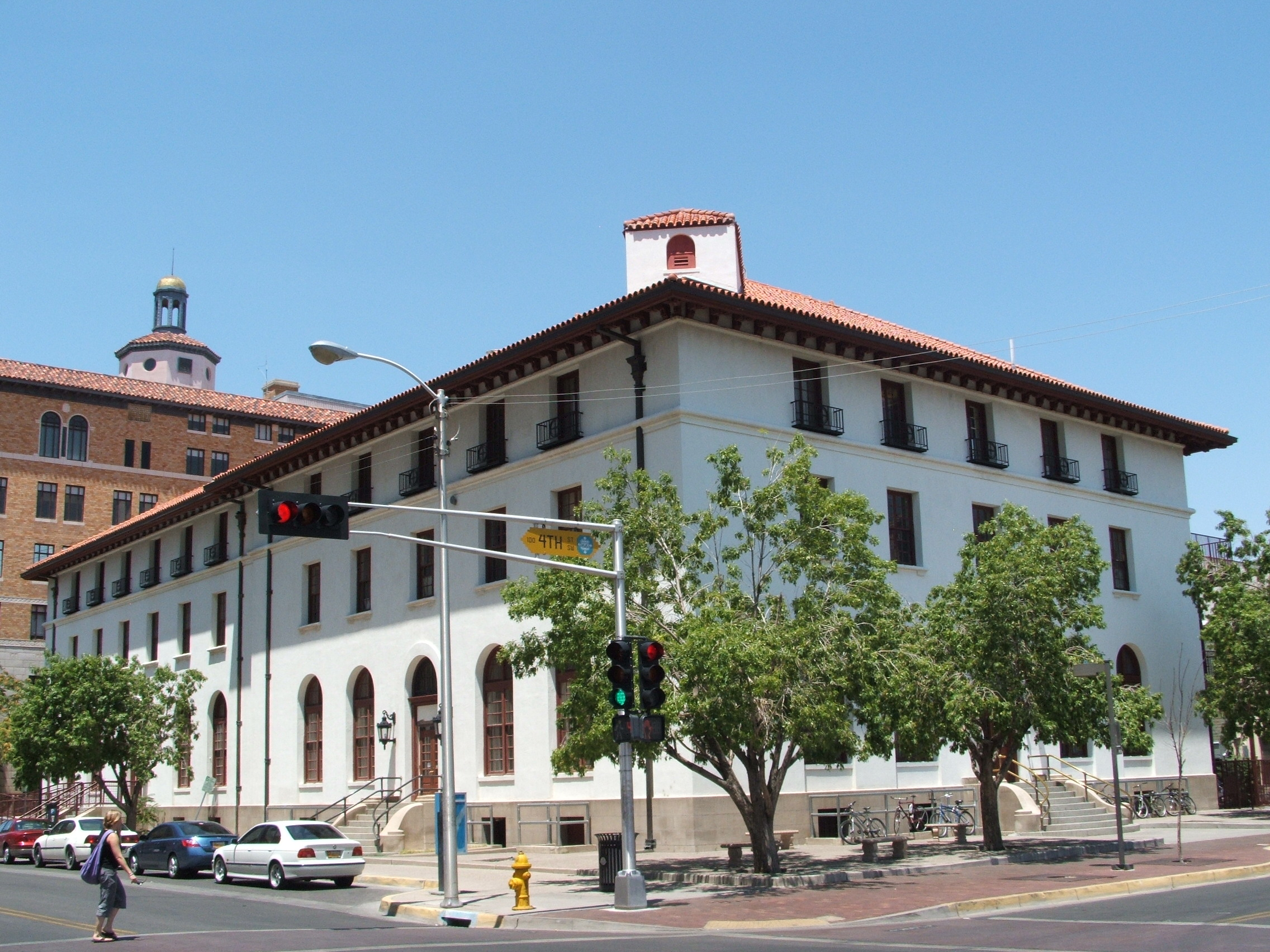 The Old Post Office building in downtown Albuquerque, New Mexico, USA. Photo taken by me, released to the public domain.